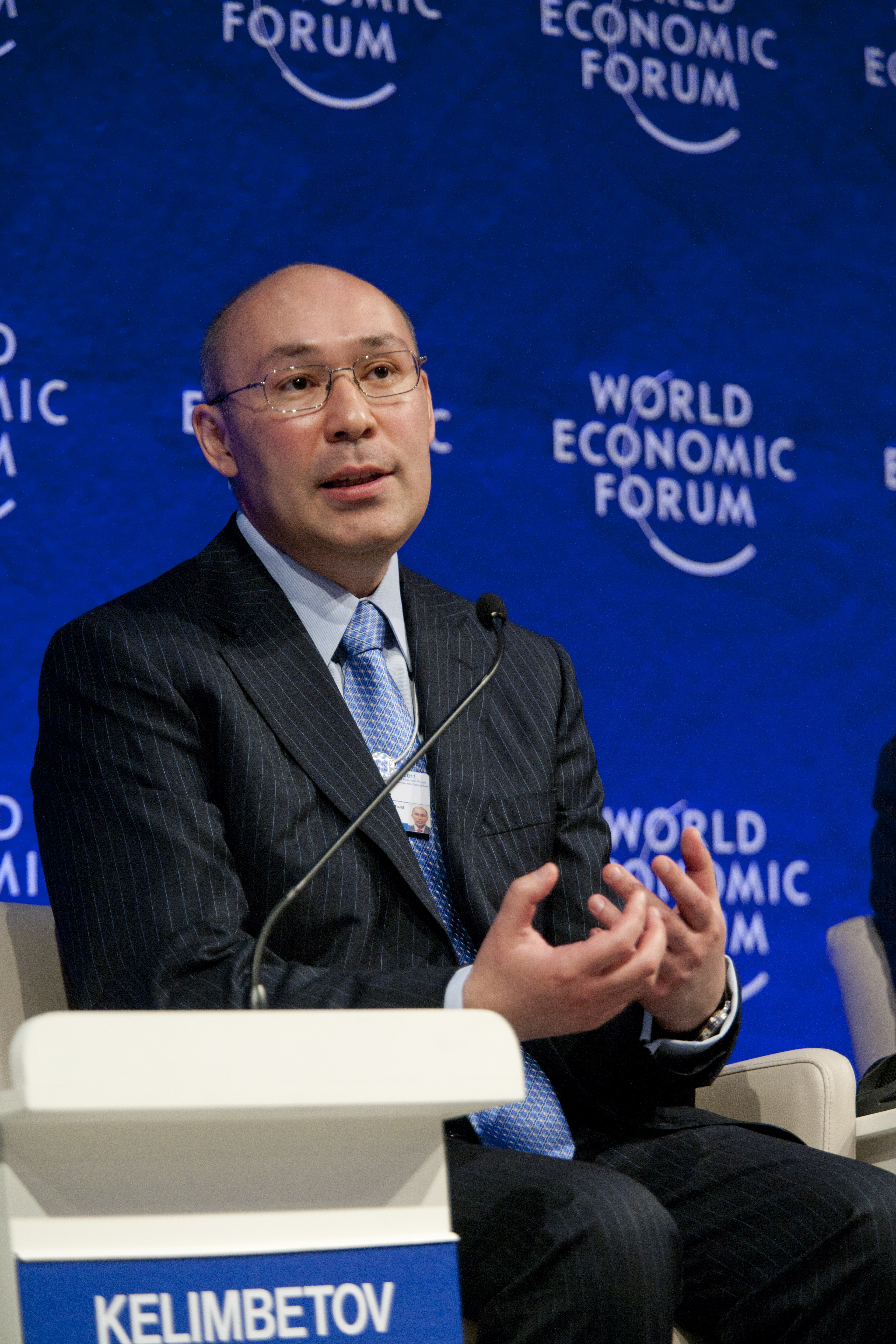 VIENNA/AUSTRIA, 8JUN11 - Kairat Kelimbetov - Minister of Economic Development and Trade of Kazakhstan, at the World Economic Forum on Europe and Central Asia held in Vienna, Austria, June 8, 2011. Copyright World Economic Forum/Photo by Benedikt Loebell